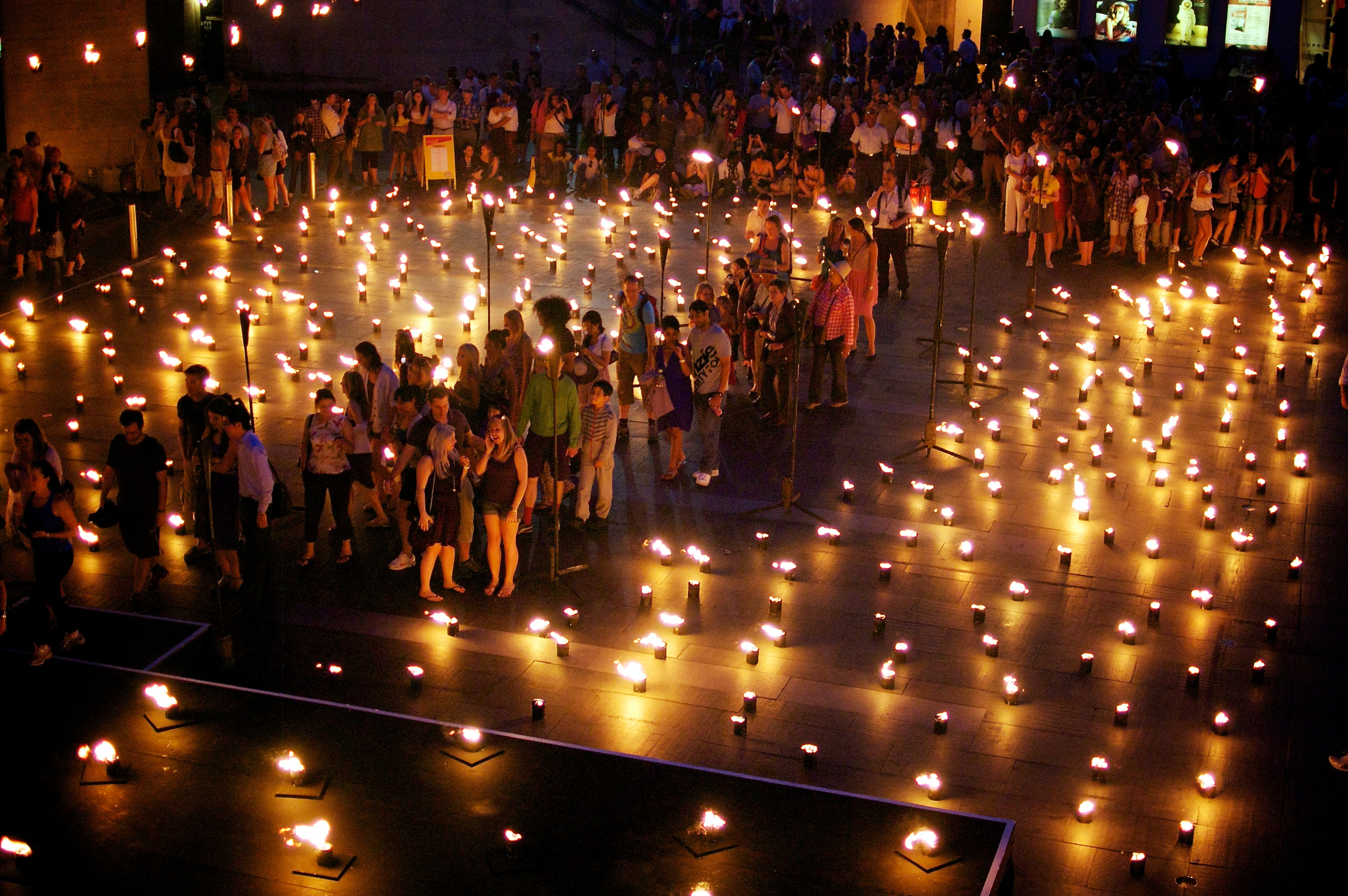 The National Theatre had built a nice fire garden to celebrate the flame arriving in London, and we went to inspect it.